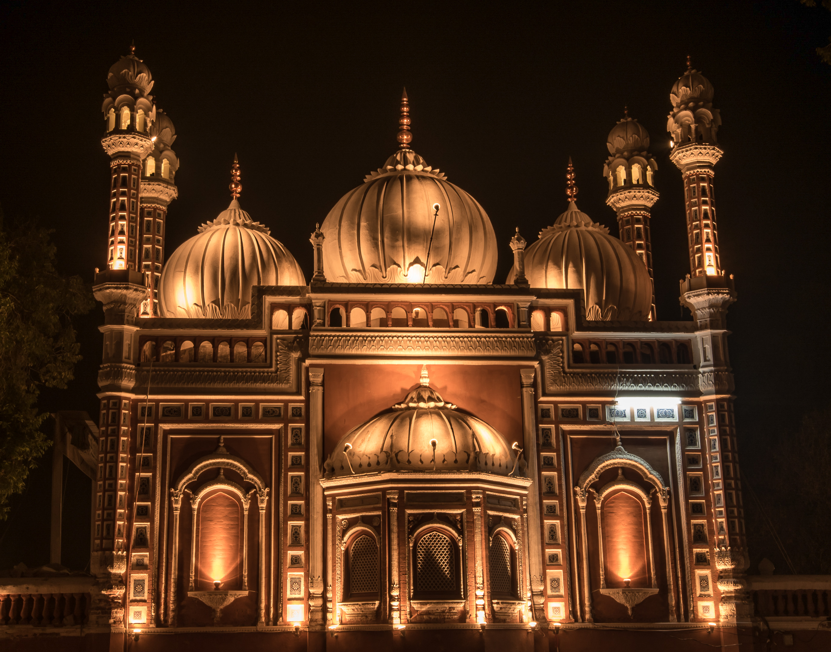 Darbar Mahal This is a photo of a monument in Pakistan identified as the PB-U-68